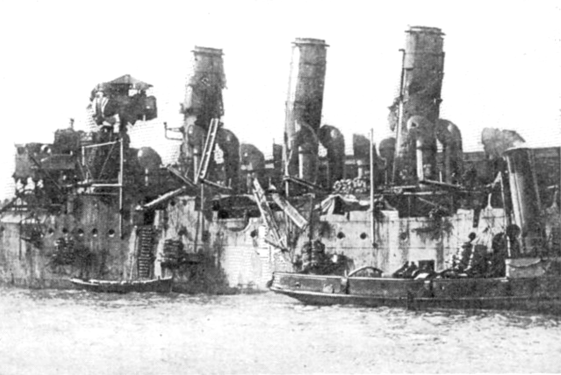 Photograph of the damaged superstructure of the HMS Vindictive following the Zeebrugge raid.